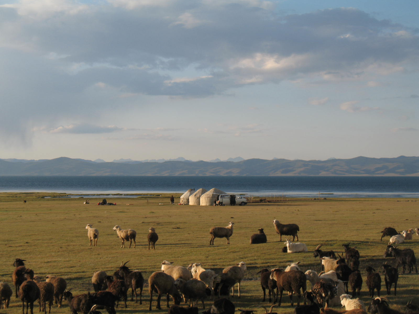 Songköl's jayloo Кыргызча: Соңкөлдүн жайлоосу